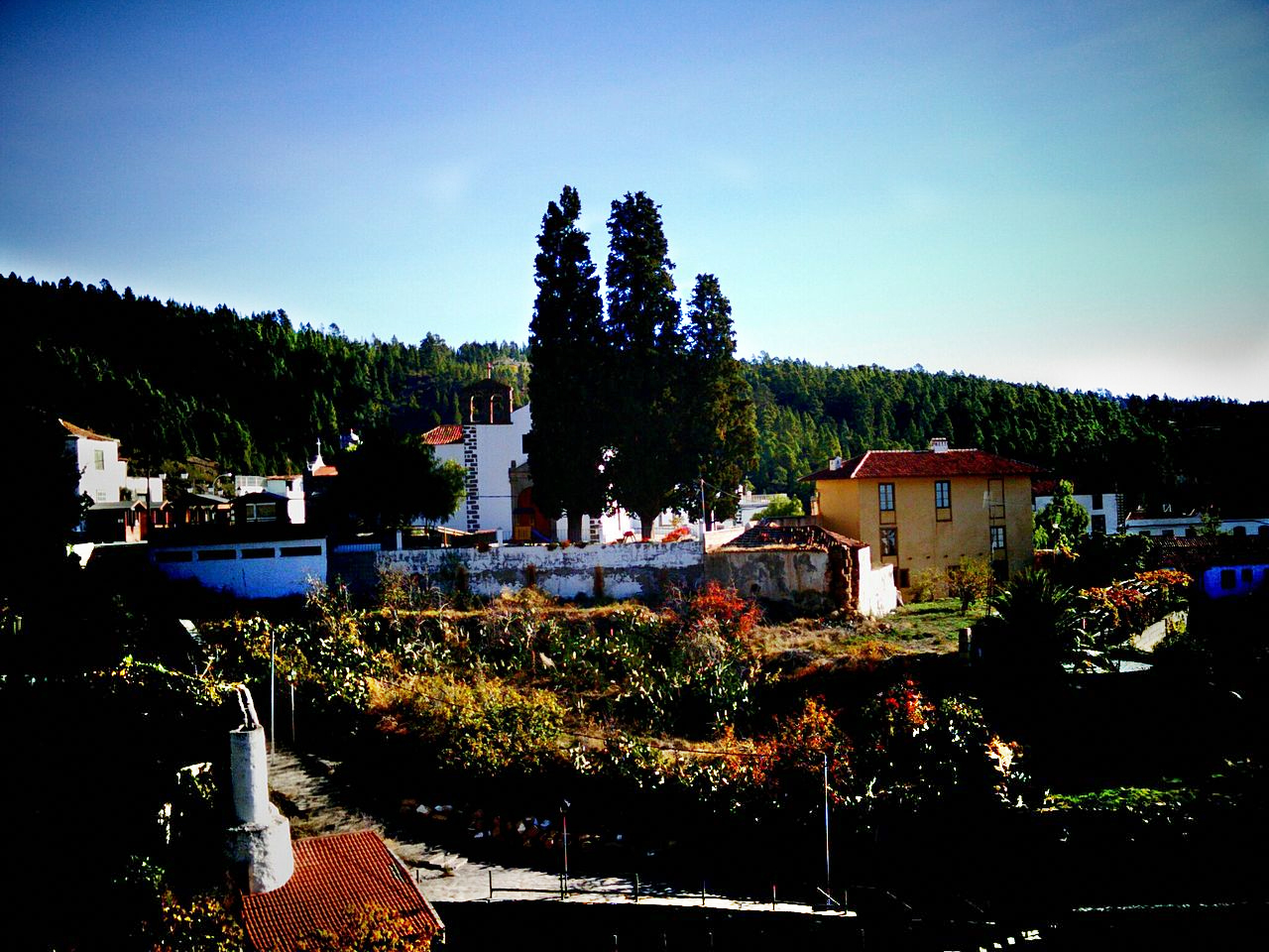 Vilaflor, Tenerife